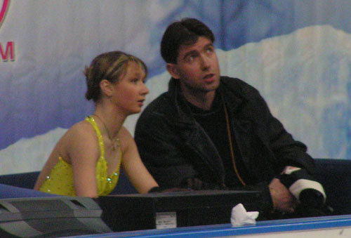 Valeria Vorobieva with coach Alexei Urmanov during the Russian National Figure Skating Championchips 2005